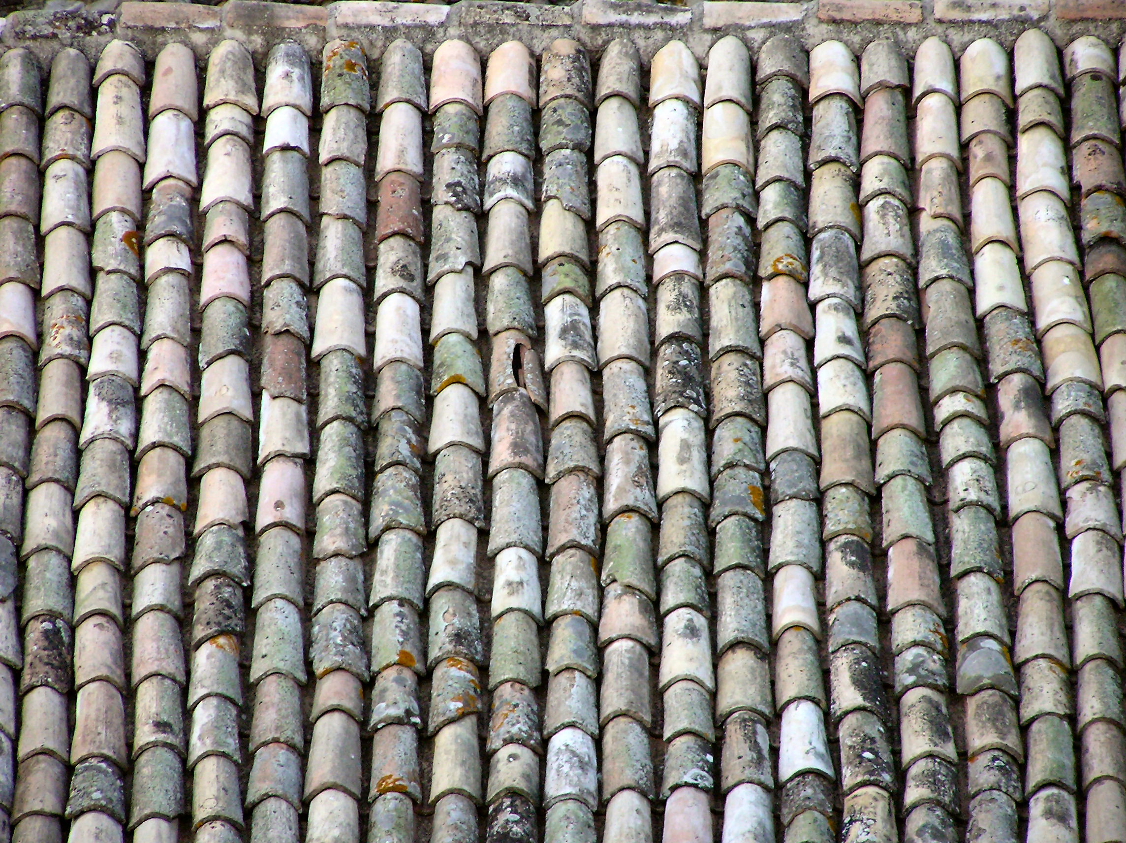 Roof in Assisi